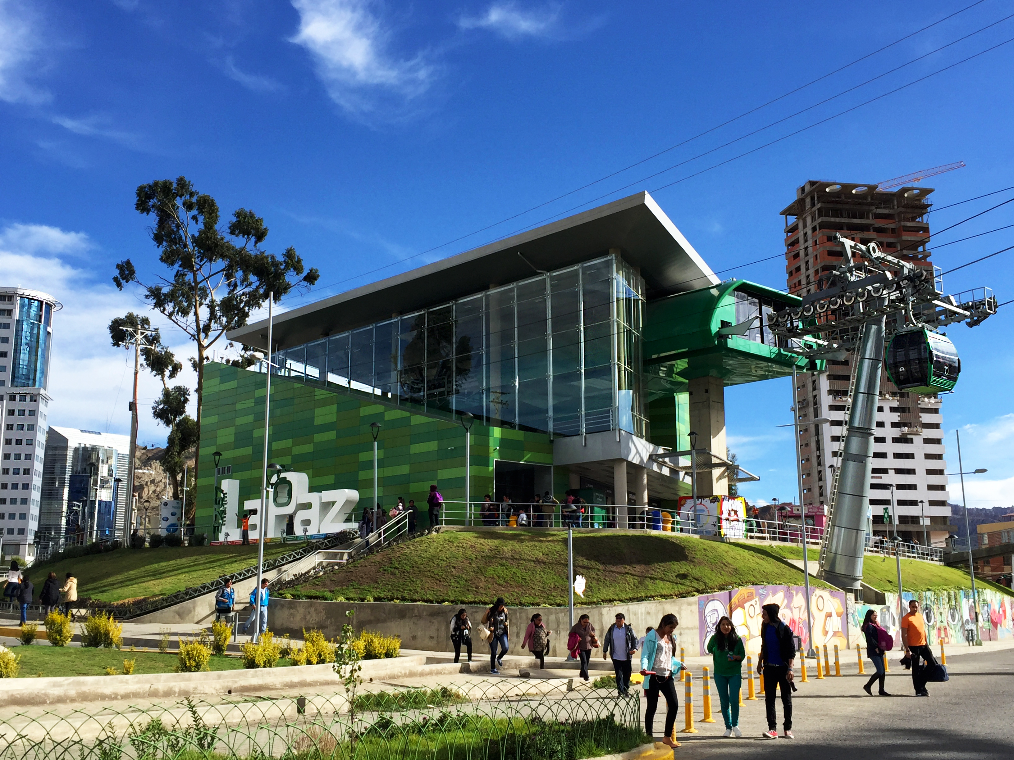 Irpawi cable-car station in La Paz, Bolivia.